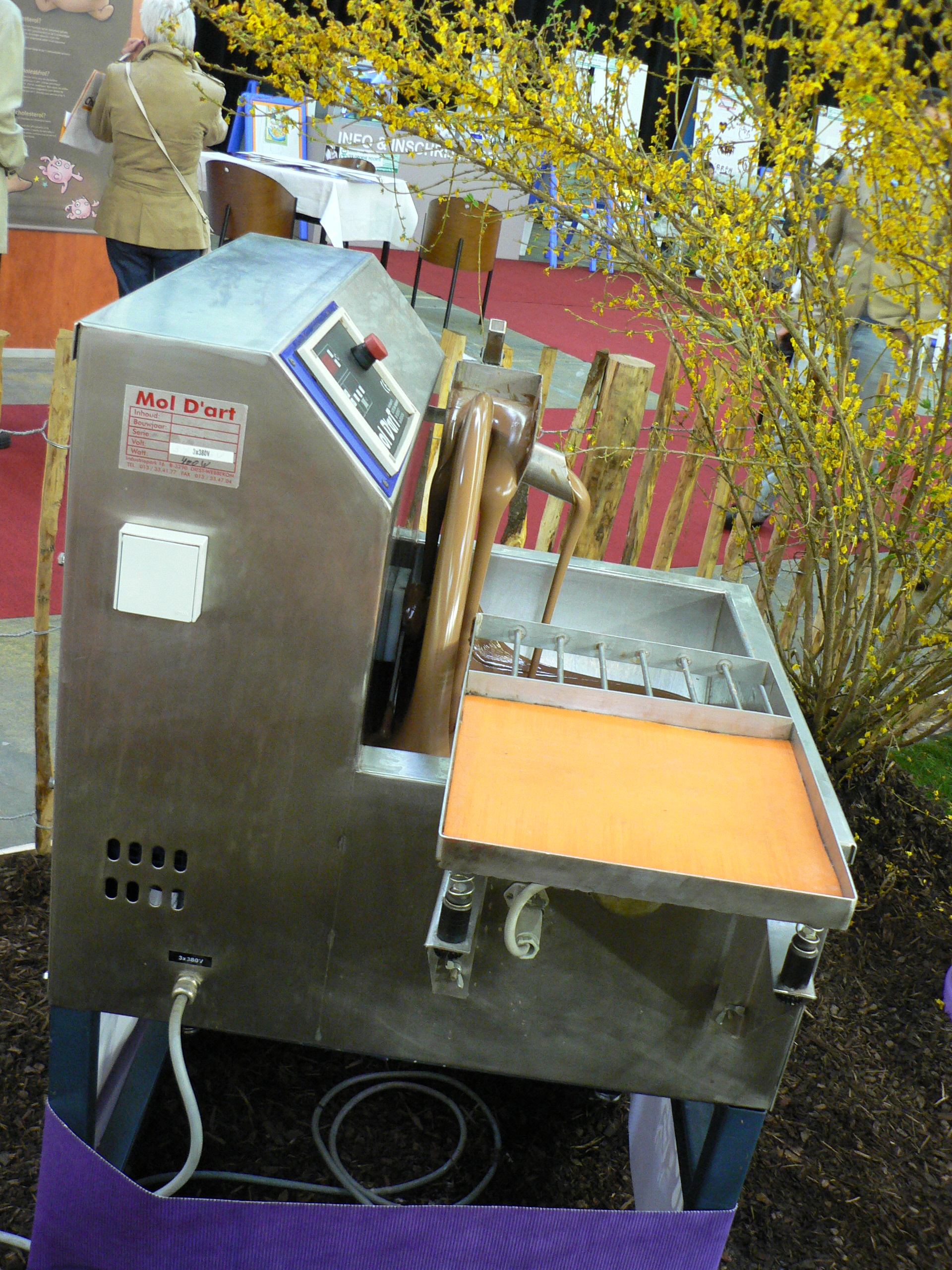 chocolate machine